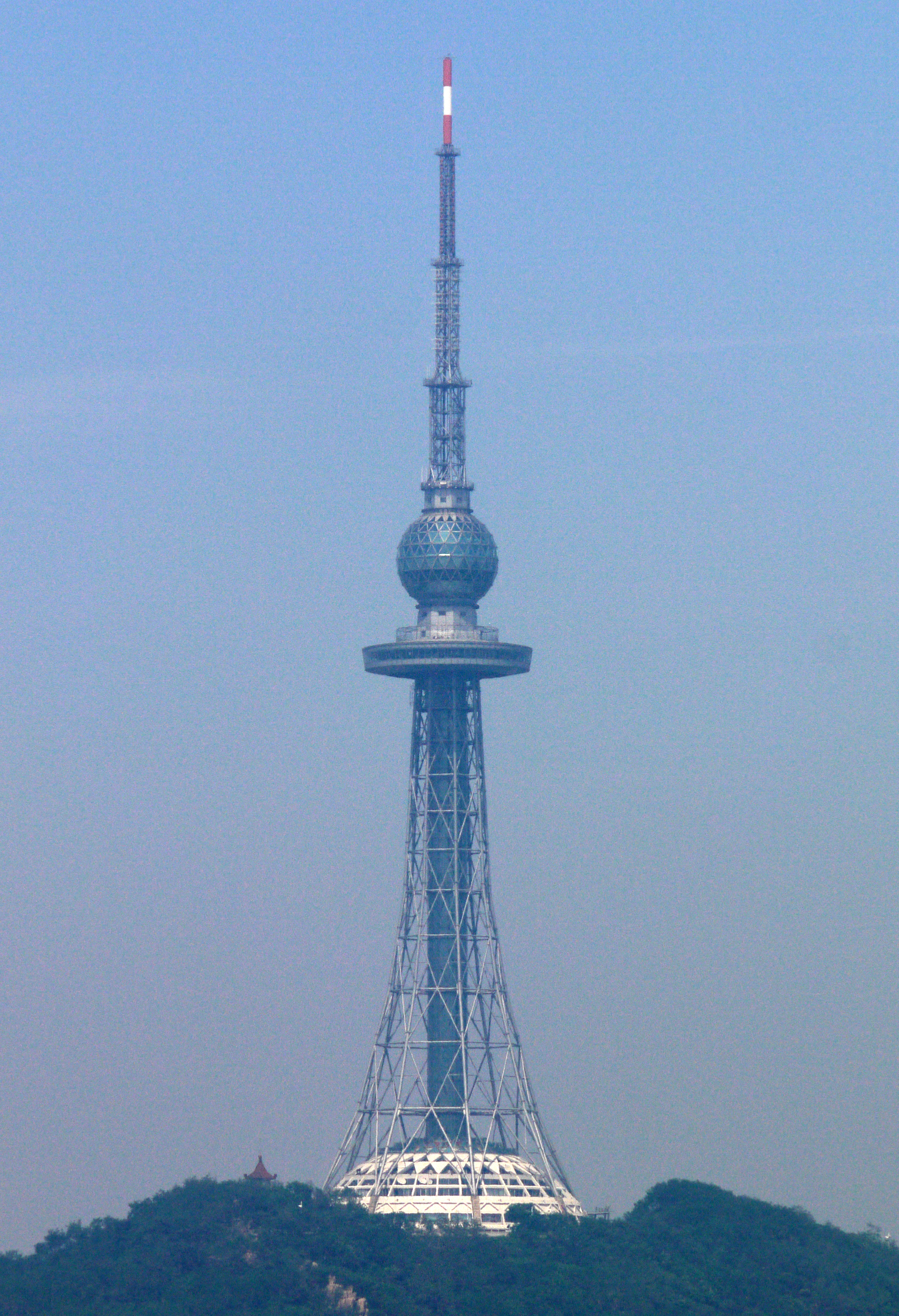 TV Tower in Qingdao, Shandong, China